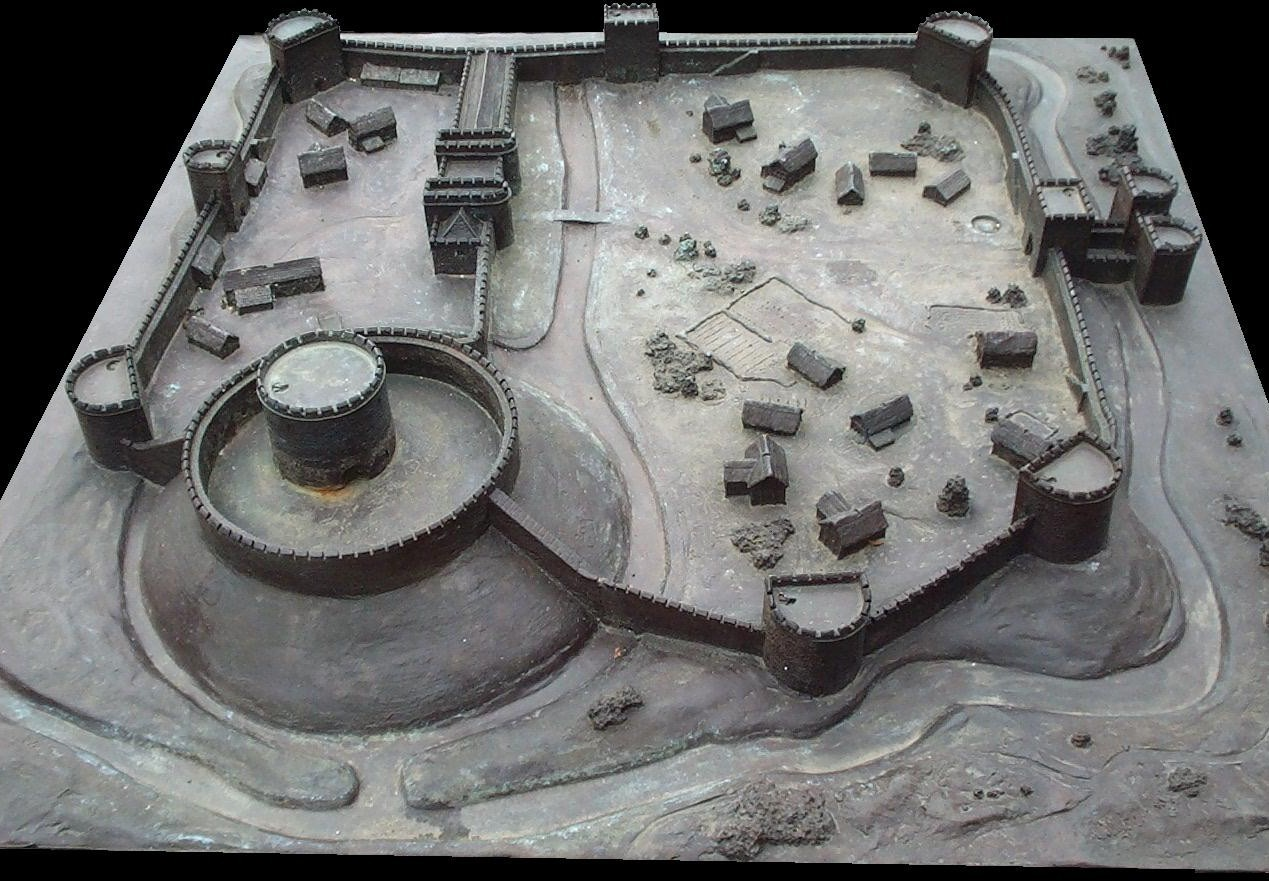 Version of photograph of model of Bedford Castle with all but the model blacked out by hchc2009. Sculptor:- Aron McCartney.